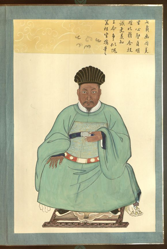 Mu Yi, a local commander of Lijiang